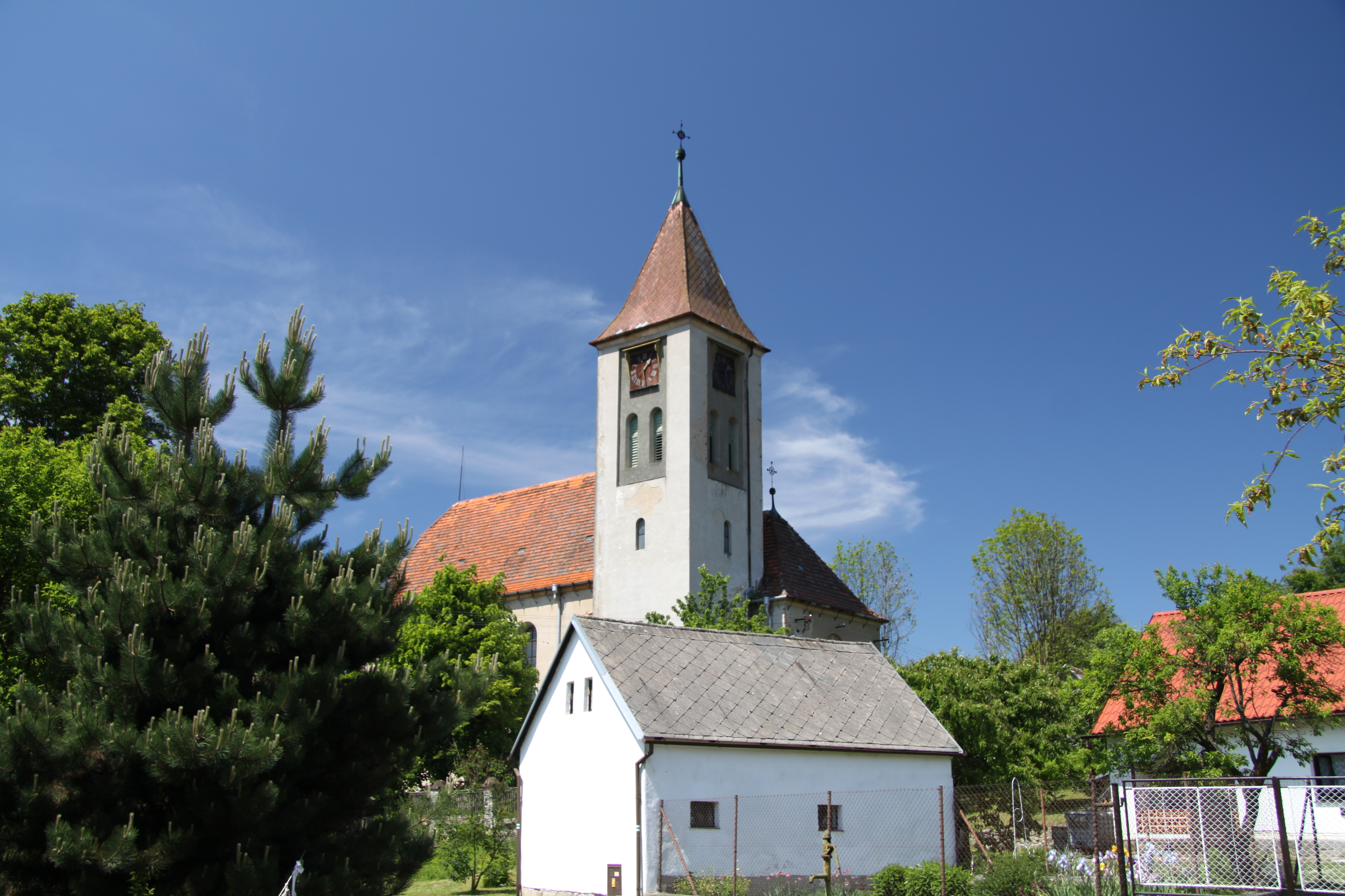 Church in Neurazy village, Plzeň-South District, Czech Republic - Google Maps - Google Earth